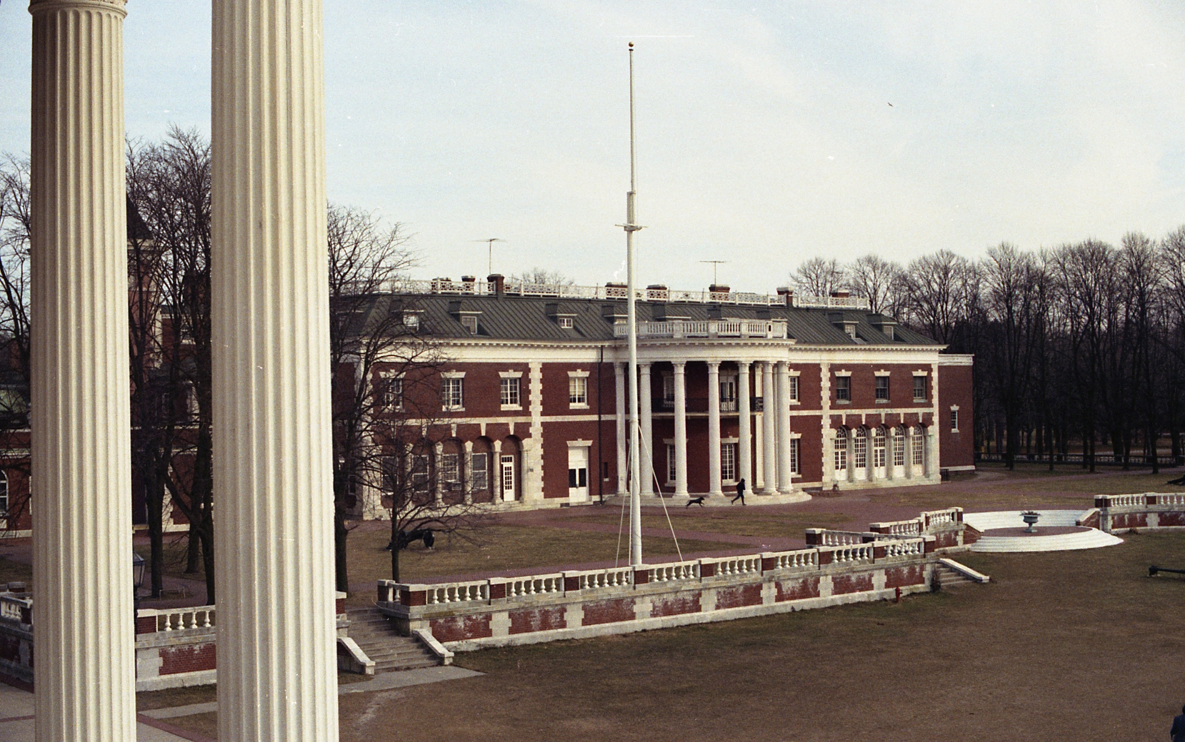 The Mansion